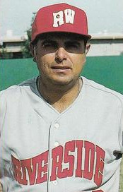 Professional baseball manager Tony Torchia